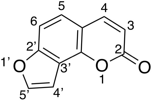 Skeletal structure of angelicin with numbering